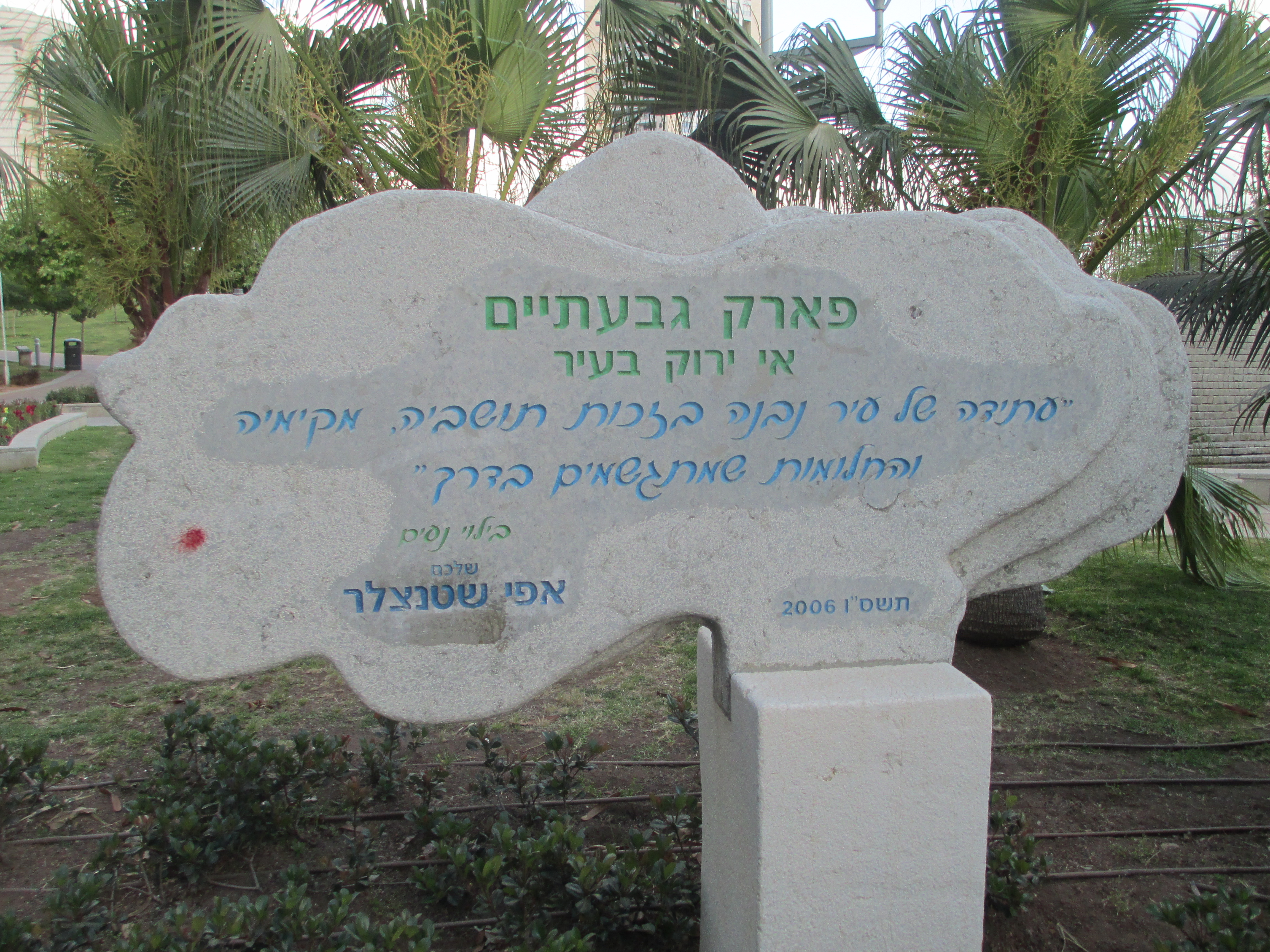 Giv'atayim Park